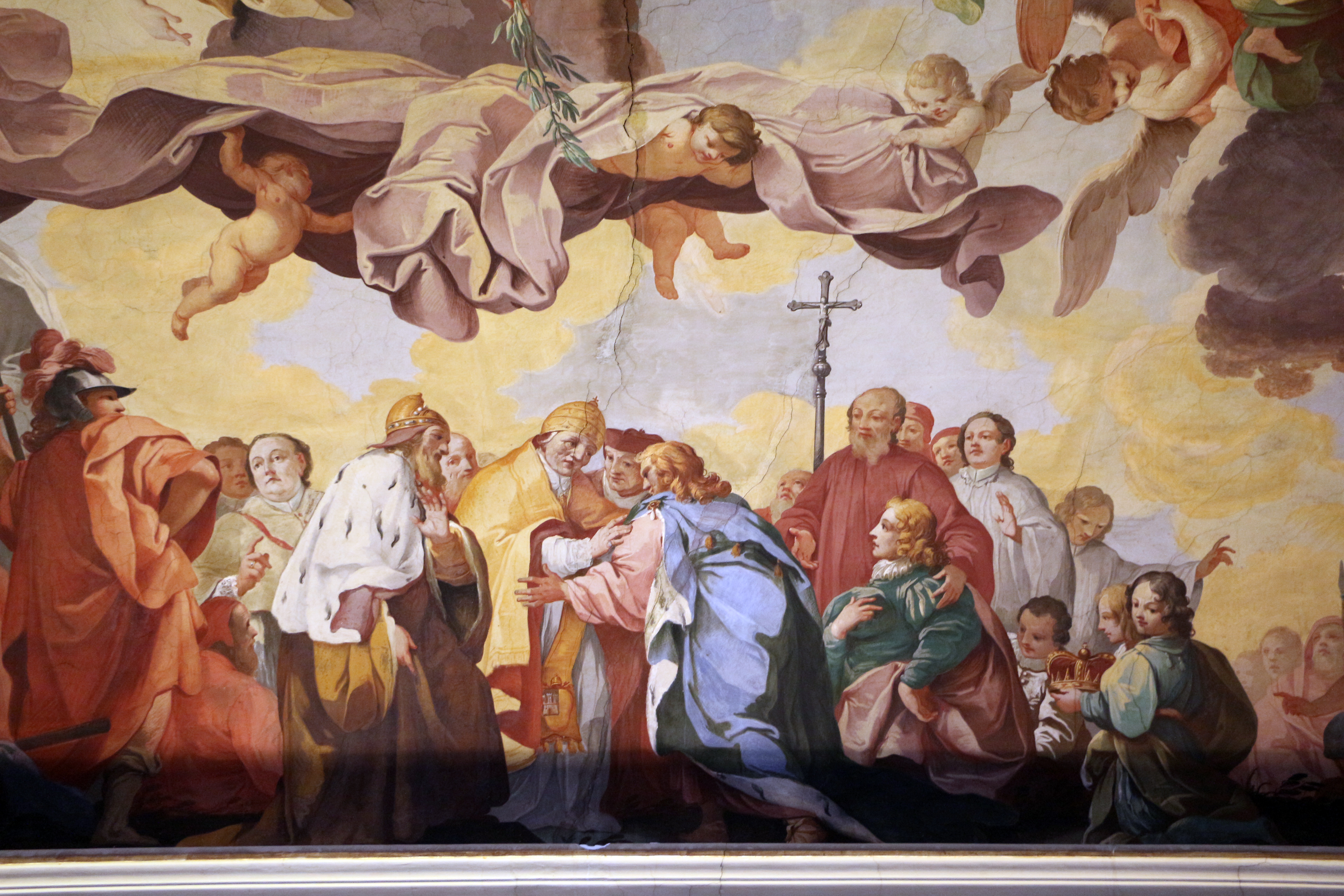 Pope Alexander III meets Barbarossa in Venice by Vincenzo Meucci